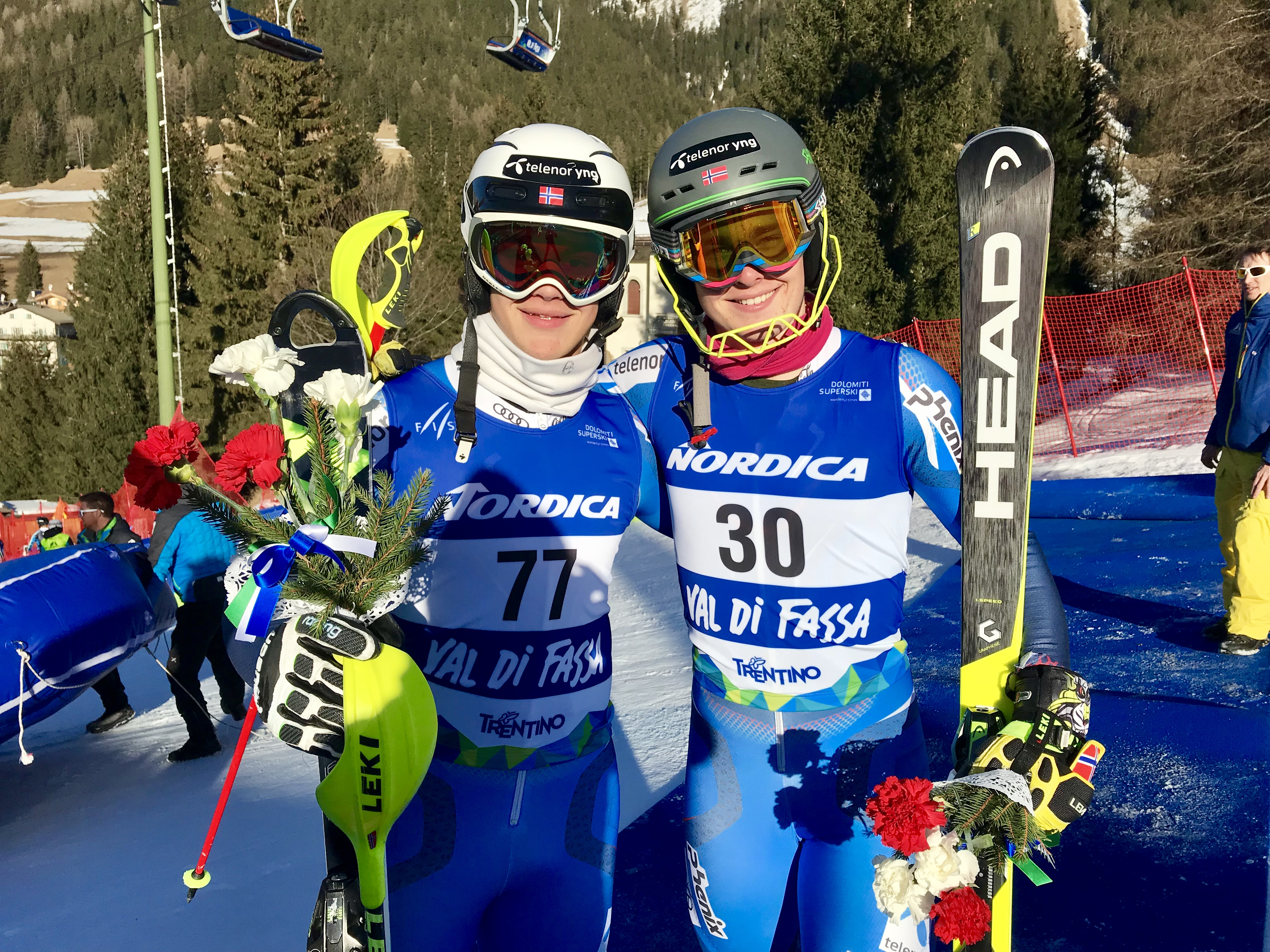 Atle Lie McGrath (silver) and Lucas Braathen (bronze) at the World Junior Alpine Skiing Championships 2019